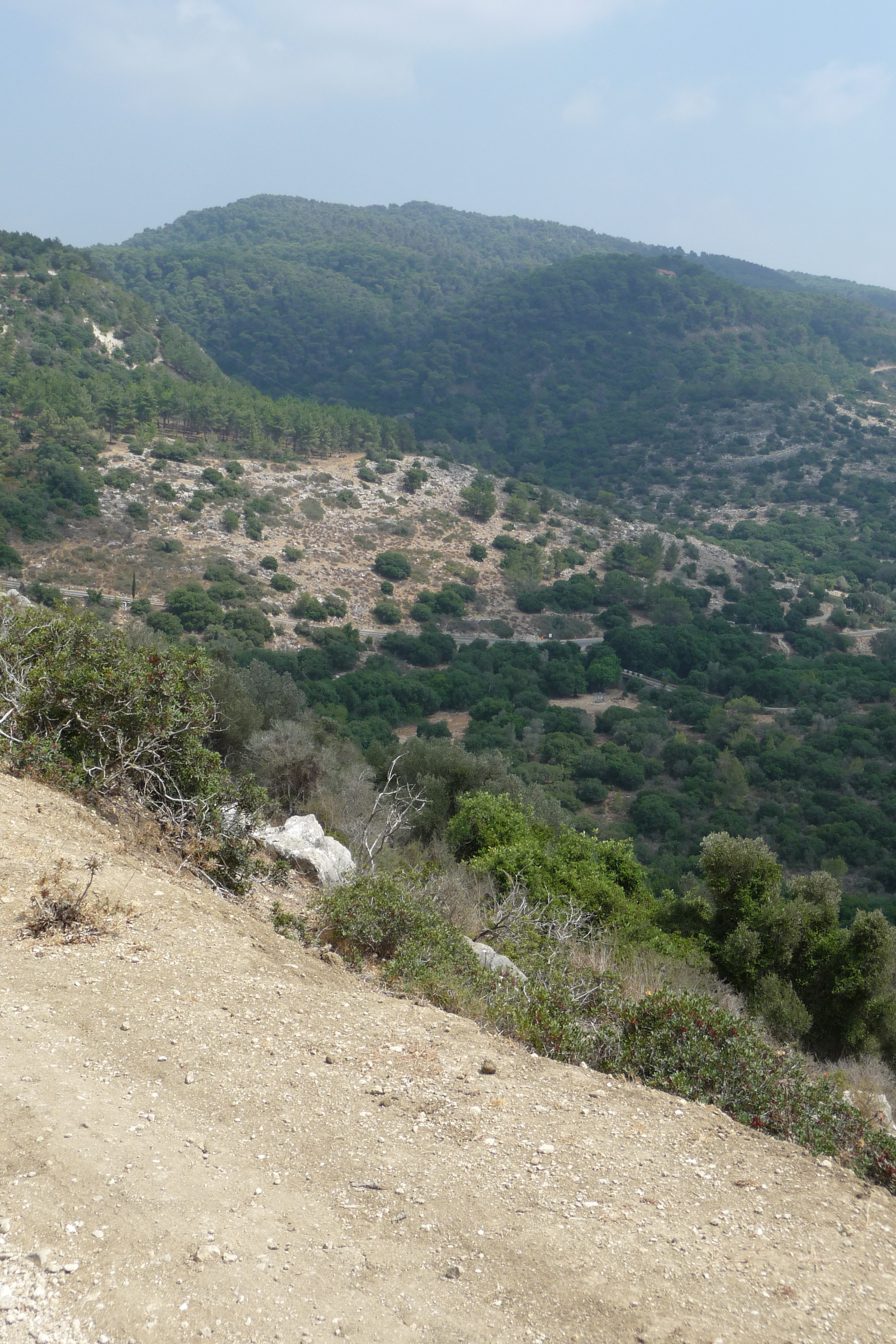 Beit Oren is a kibbutz in northern Israel. It falls under the jurisdiction of Hof HaCarmel Regional Council.